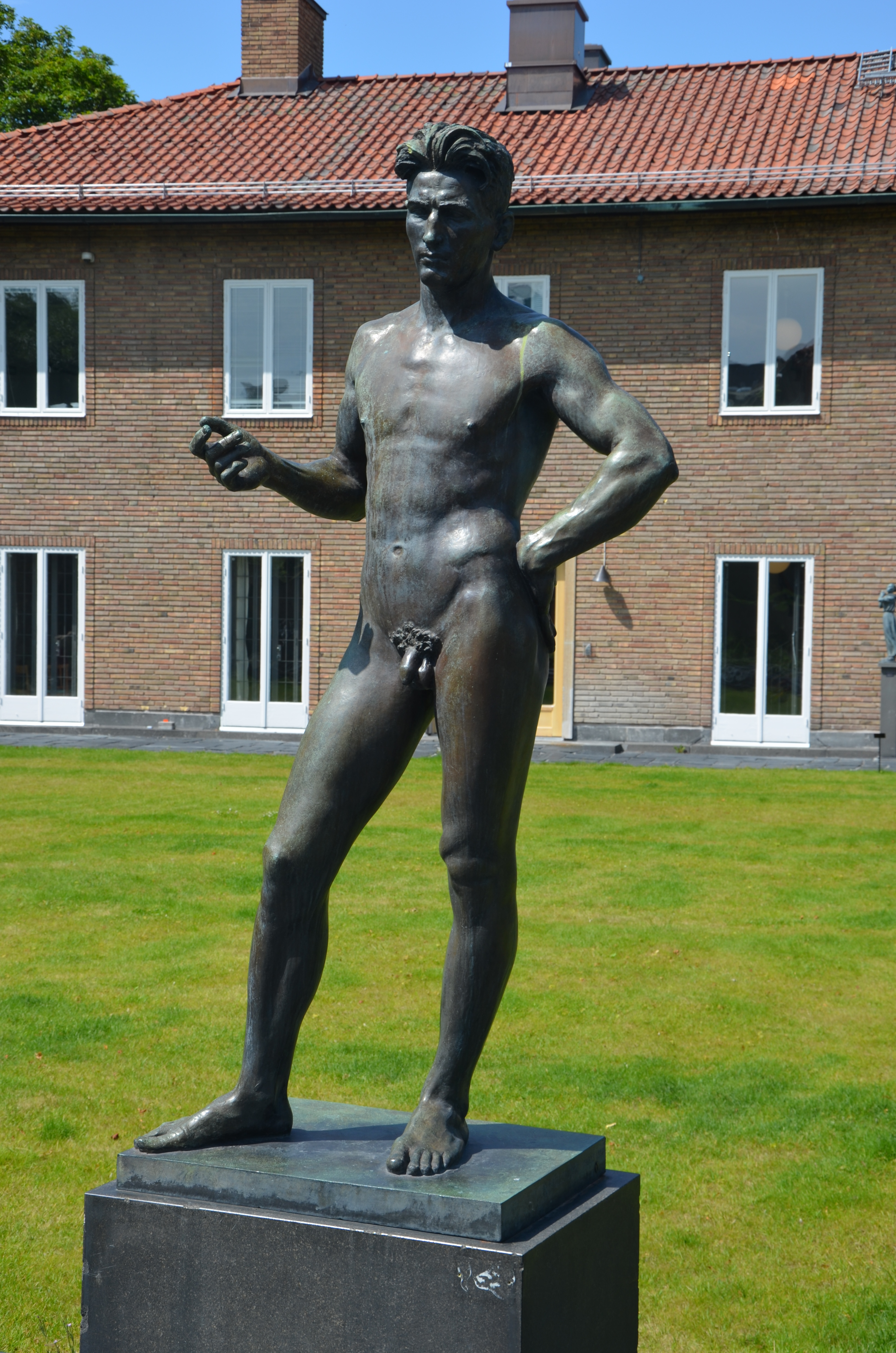 Nils Möllerberg´s Boxaren, Marabouparken, Sundbyberg, Sweden